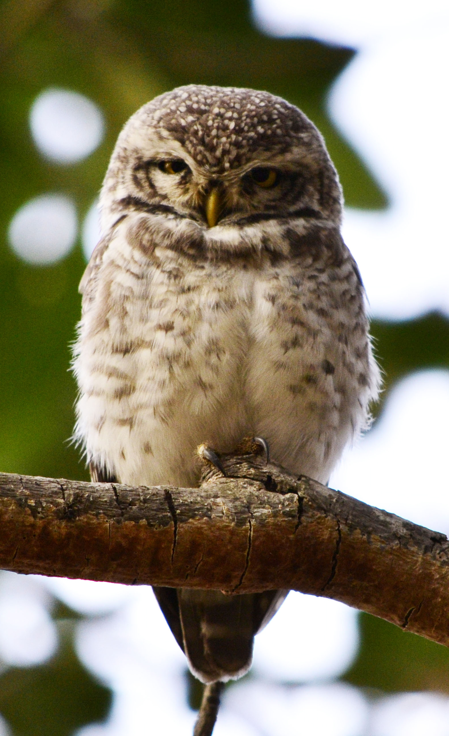 This is a photograph taken by me at Pune, India. It is of a spotted owlet.